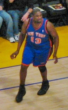 New York Knicks at Los Angeles Lakers game